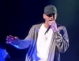 Eminem performing at the DJ hero party with D12 on June 1, 2009. Crop by uploader